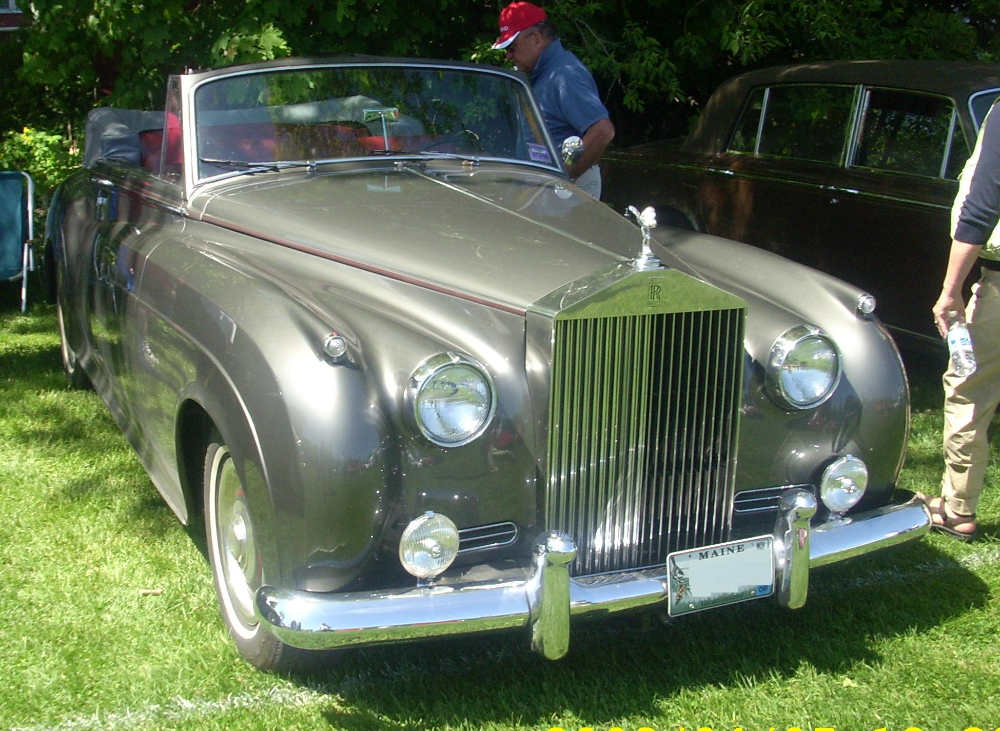 1961 Rolls-Royce Silver Cloud photographed at the 2008 Hudson British Car Show.